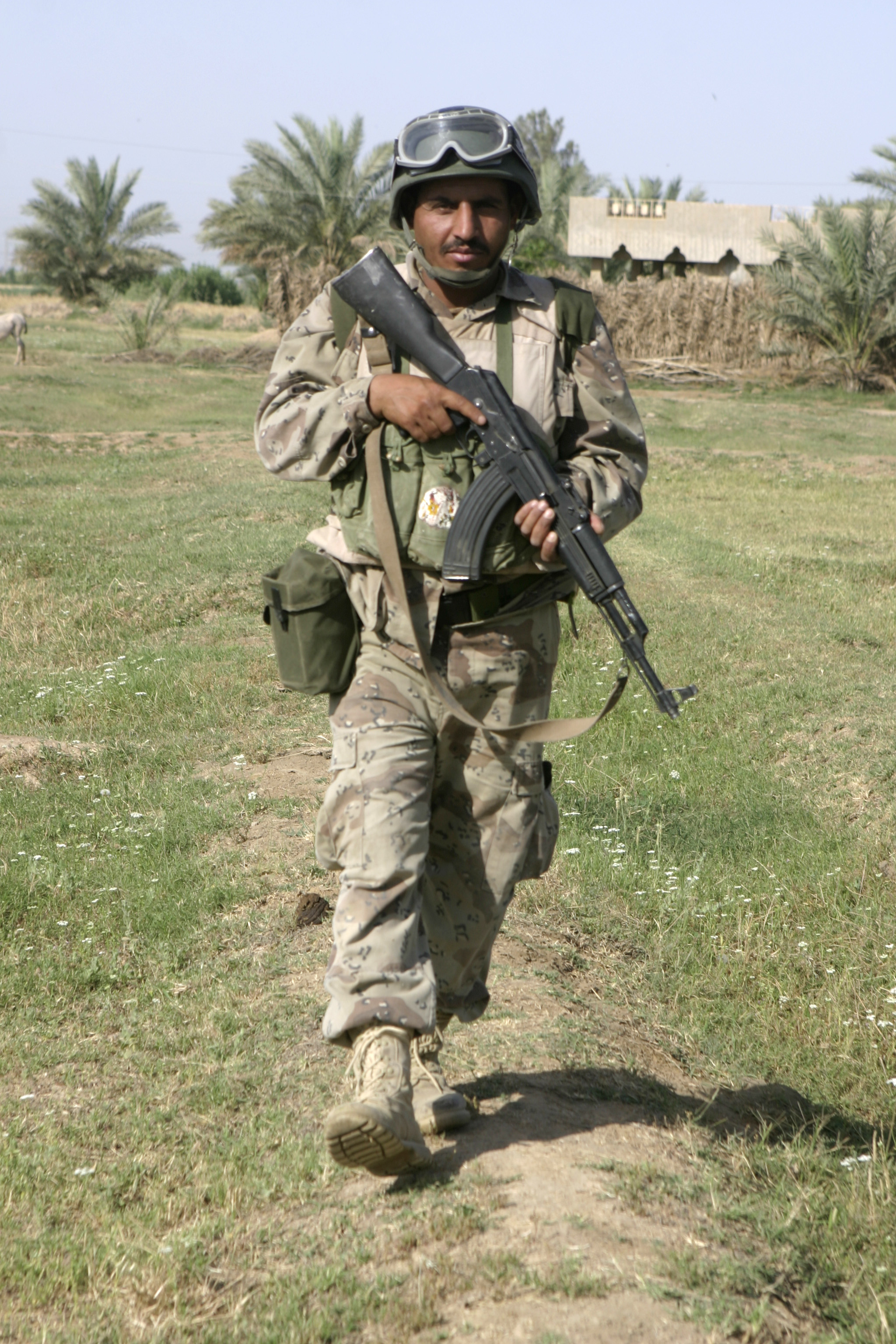 SAQLAWIYAH, Iraq - An Iraqi soldier with the Iraqi Security Forces' 2nd Company, 2nd Battalion, 2nd Brigade walks through farm fields outside Saqlawiyah May 22. The Iraqi soldiers worked alongside Company A, 1st Battalion, 6th Marine Regiment personnel and combat engineers to sweep through numerous farm fields outside Saqlawiyah, looking for hidden weapons caches and insurgent activity.